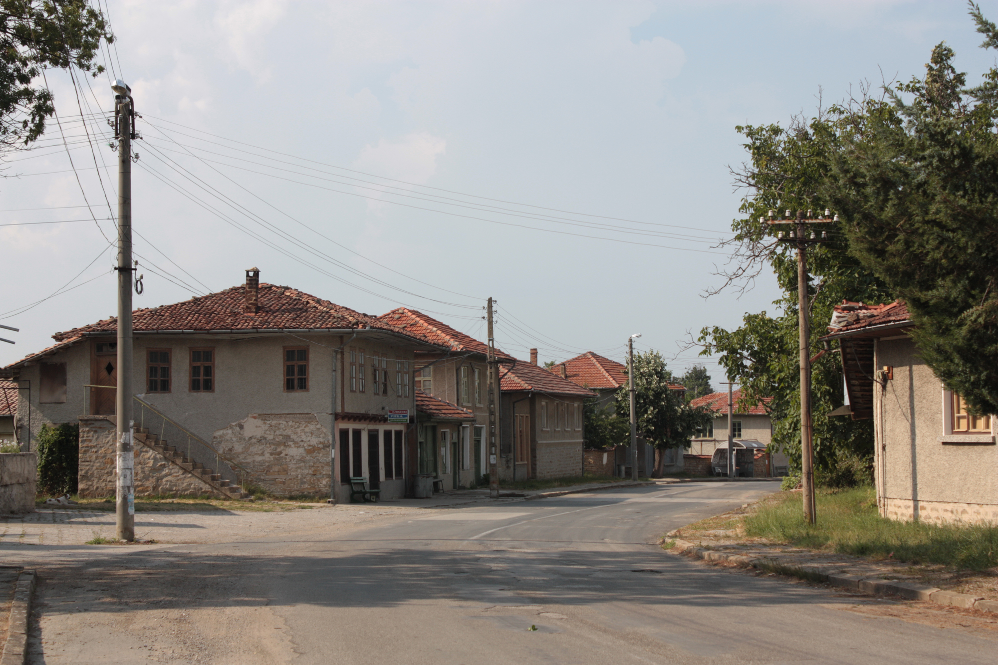 The main street of Plakovo, Bulgaria